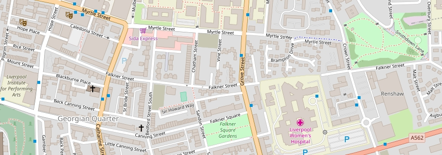 Falkner Street complete view This map may be incomplete, and may contain errors. Don't rely solely on it for navigation.